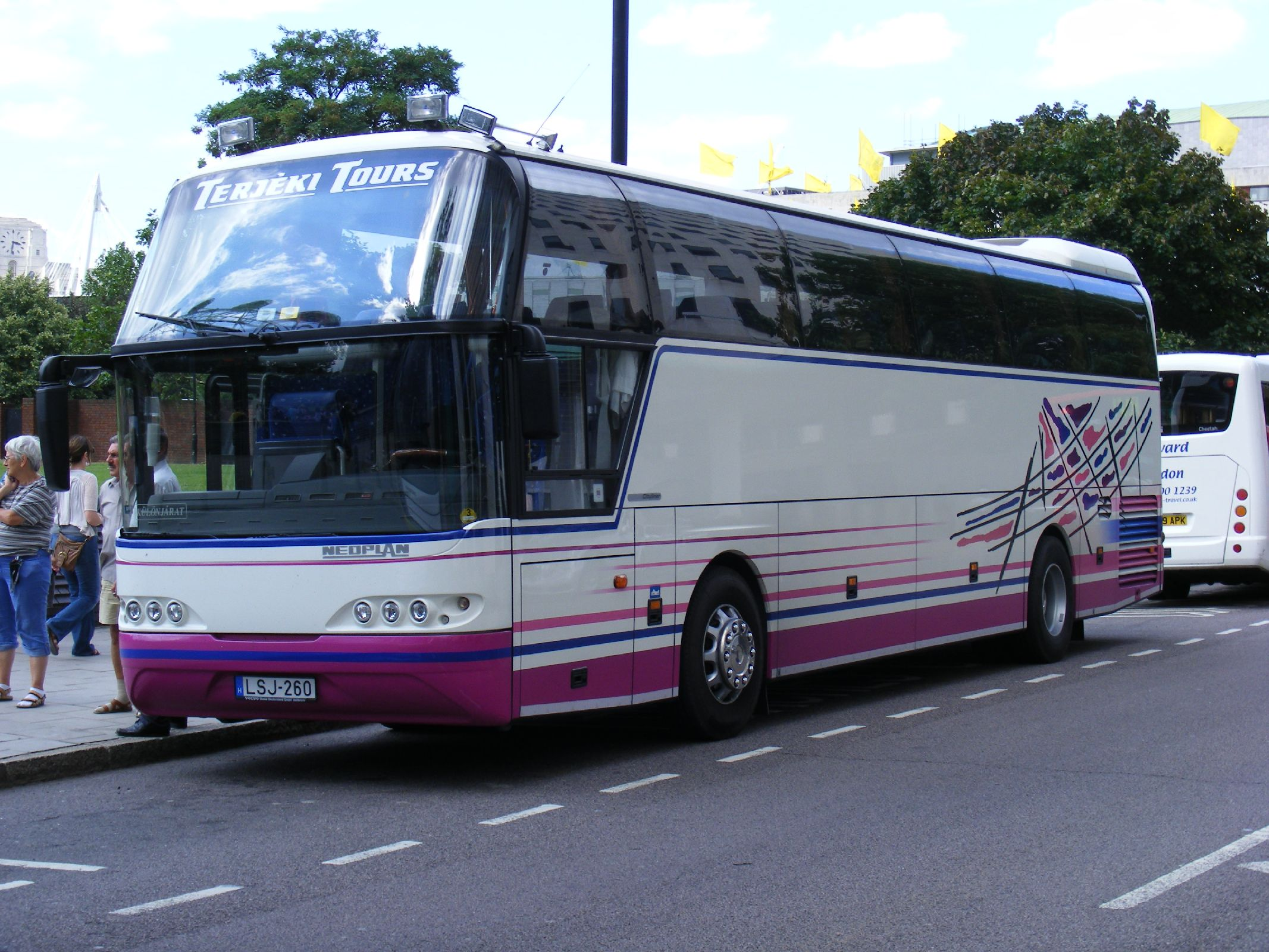 Owner Laszlo Terjéki , Terjéki Tours,Tiszakécske. Website here Shown on the company's website with German HN plate (trade?) HN-377R